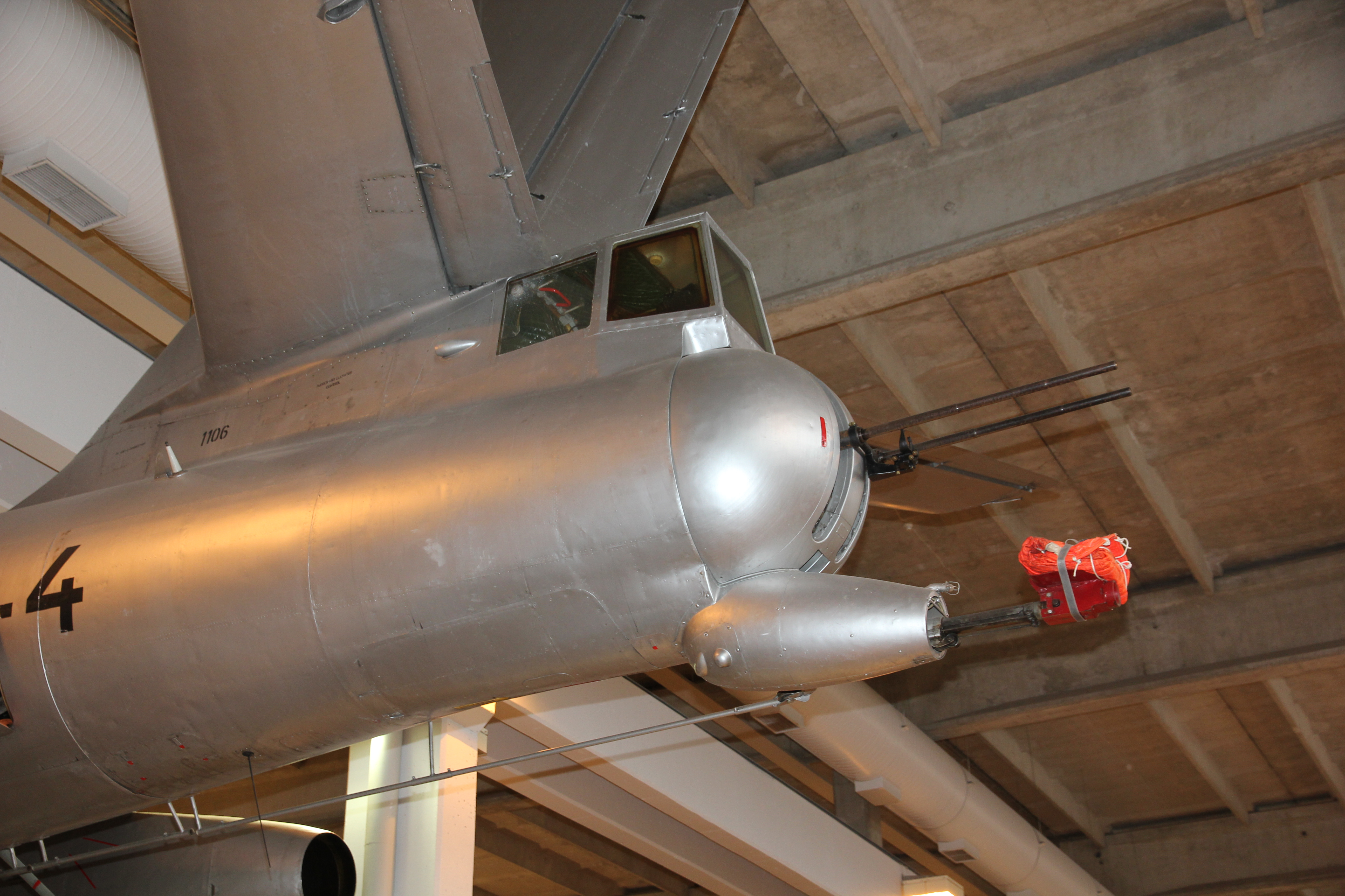 Iljušin IL-28R (NH-4) tail turret in the Aviation museum of Central Finland. The orange bag is an aerial gunnery target sock.